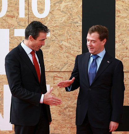 With NATO Secretary General Anders Fogh Rasmussen.